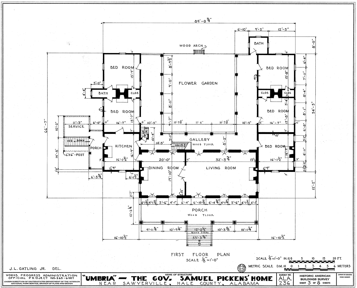 Governor Samuel Pickens House, best known as Umbria, State Route 14, Sawyerville vicinity, Hale, AL. ARCHITECTURAL DRAWINGS.